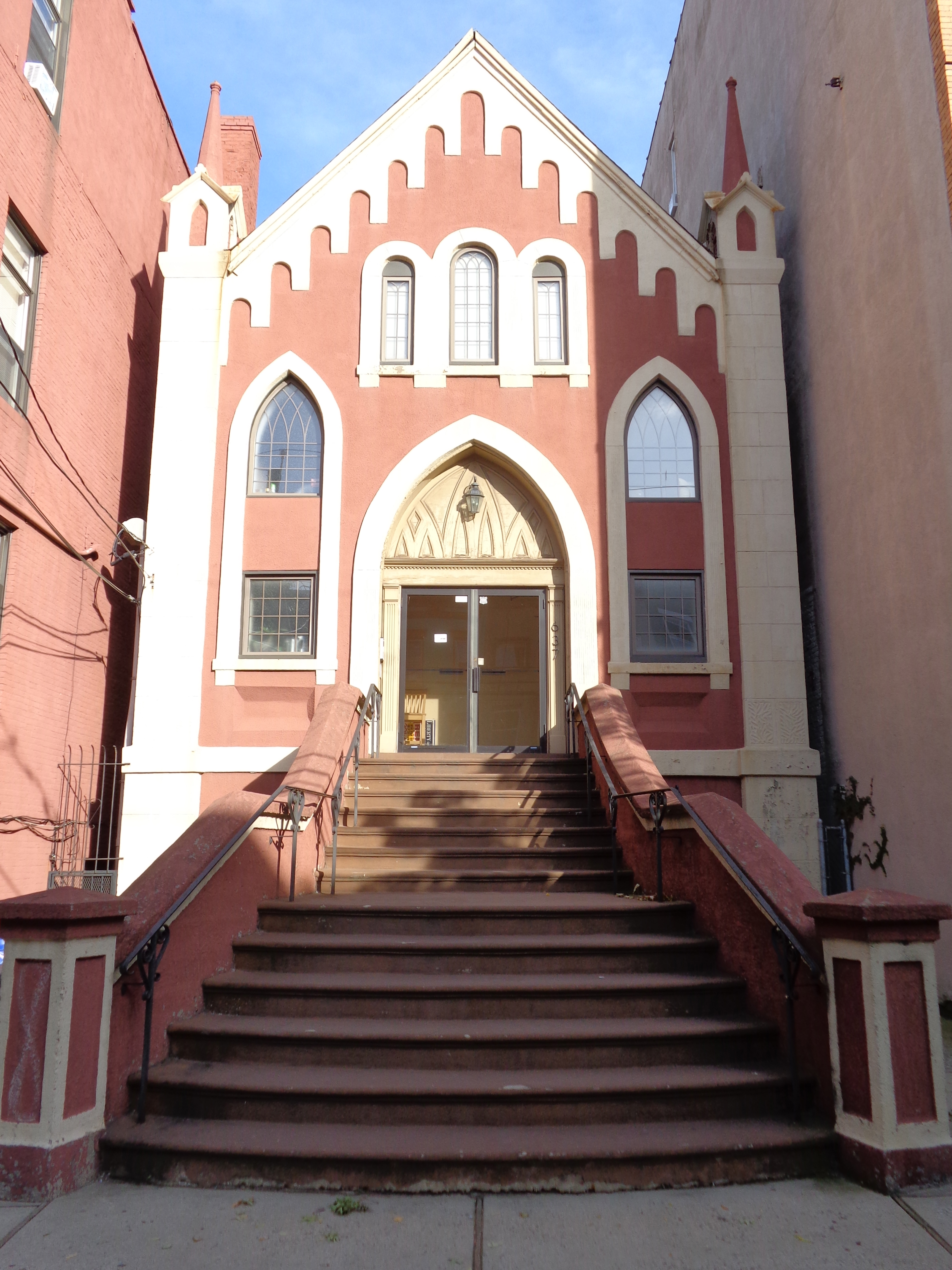 Adas Emuno Synagogue Hoboken, Hudson County, built 1883 and oldest surviving synagogue building in New Jersey, now residences